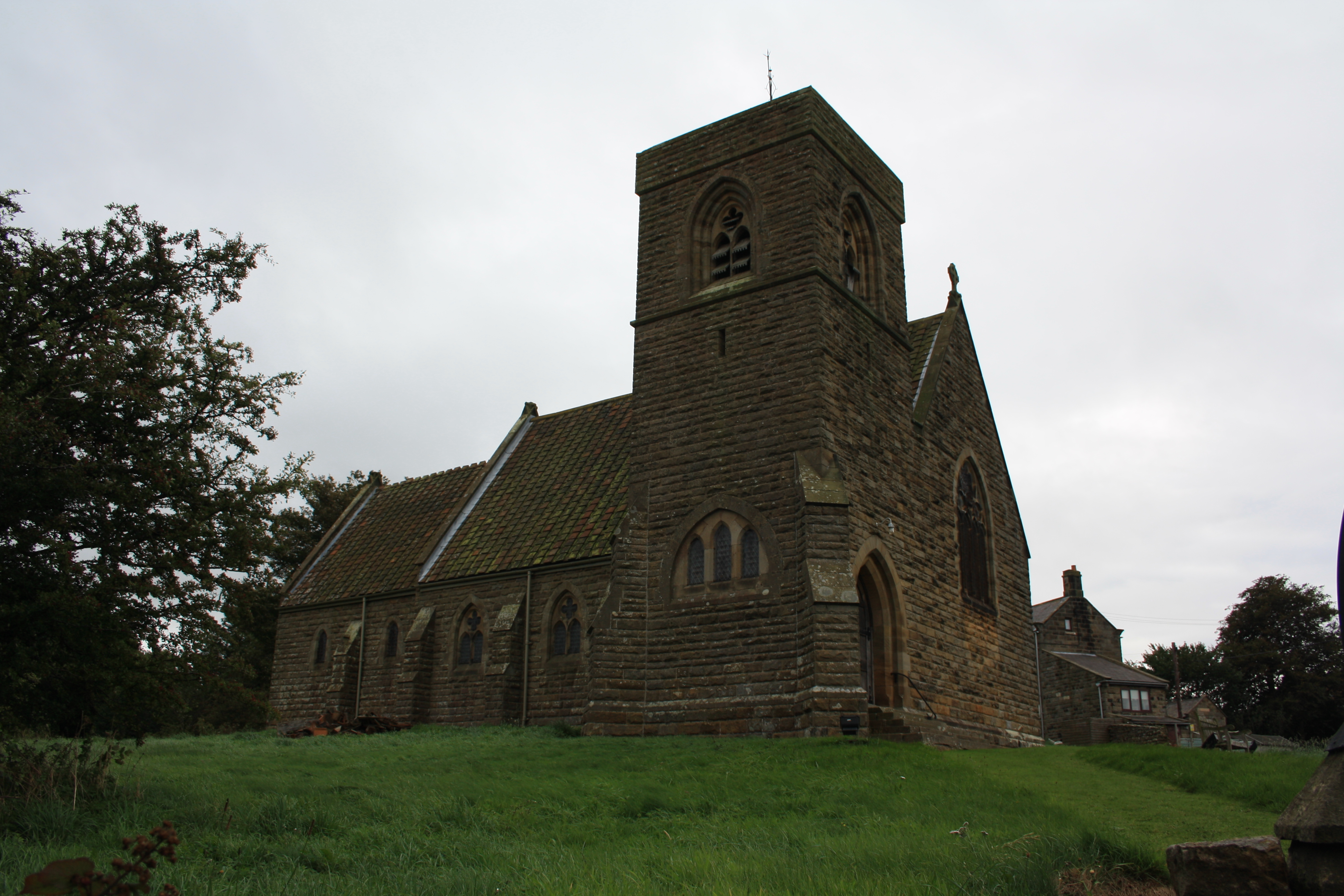 All Saints' parish church, Ugglebarnby, North Yorkshire, seen from the northwest